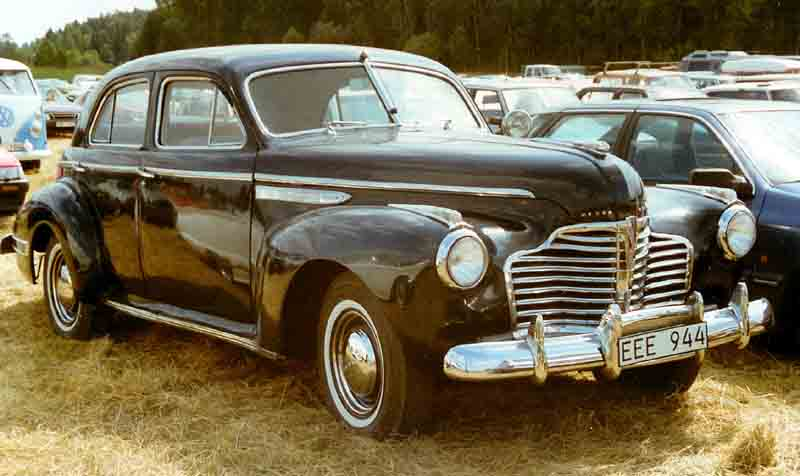 1941 Buick Century Series 60 Model 4-Door Touring Sedan